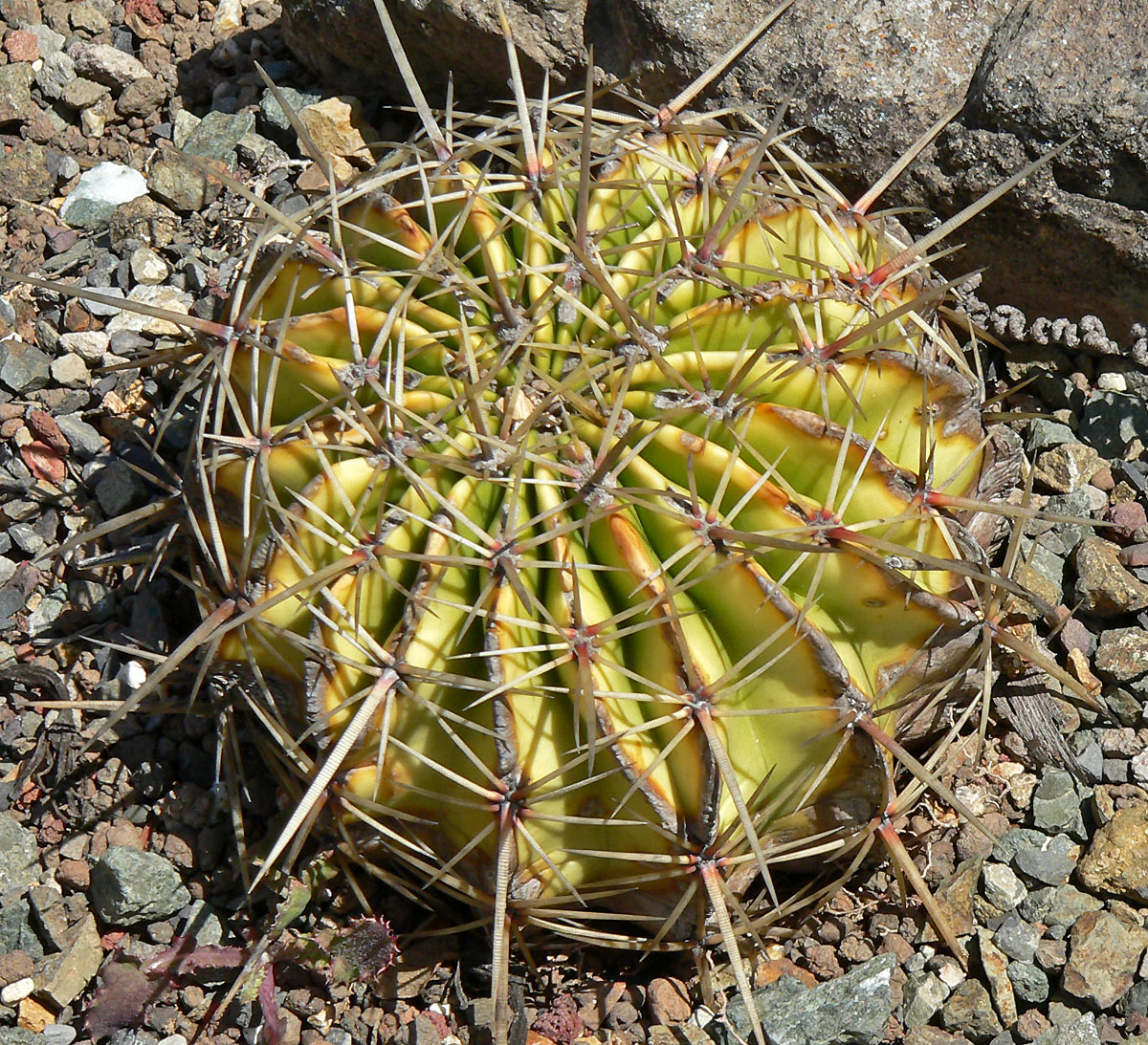 Ferocactus echidne var. victoriensis at the University of California Botanical Garden, Berkeley, California